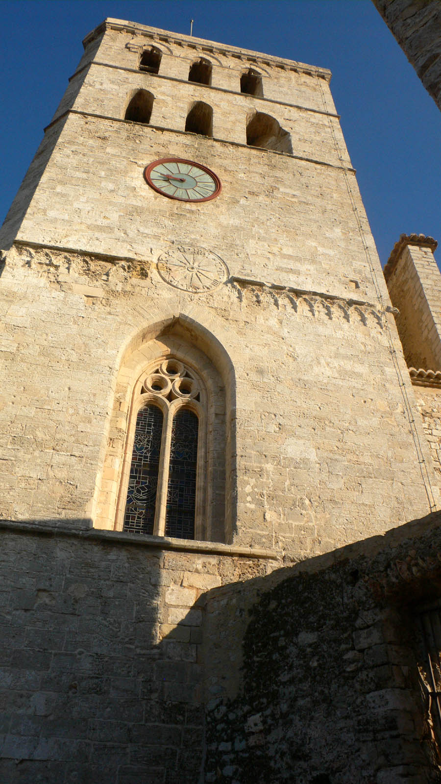 Gothic bell tower of the Cathedral of Ibiza (Spain). XIV century.